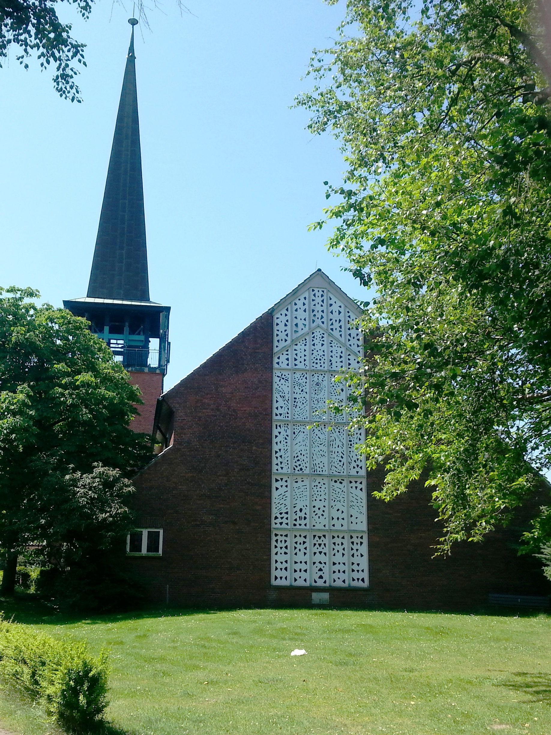 The Evangelical Lutheran John the Apostle Church in Stade, built from 1955 to 1956 by Hopp & Jäger, Hamburg, on a little hill, Kirchhügel, of 21 m height. Seen from east.